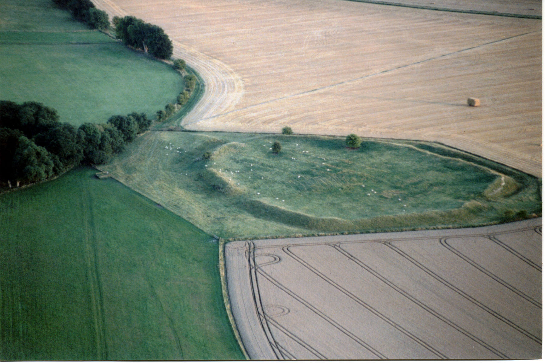 Atlas of Hillforts number 0137